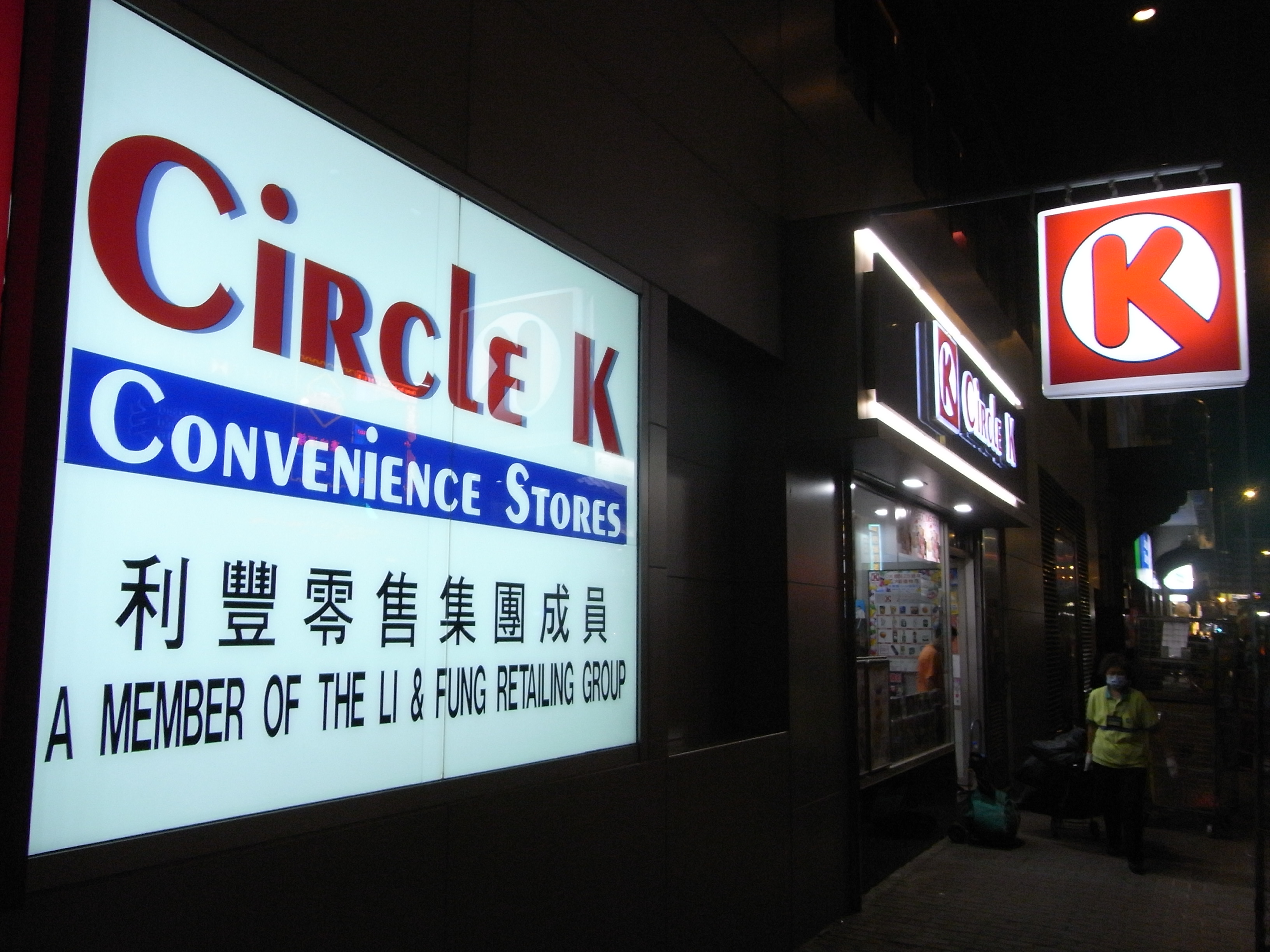 長沙灣長沙灣道利豐大廈 OK便利店